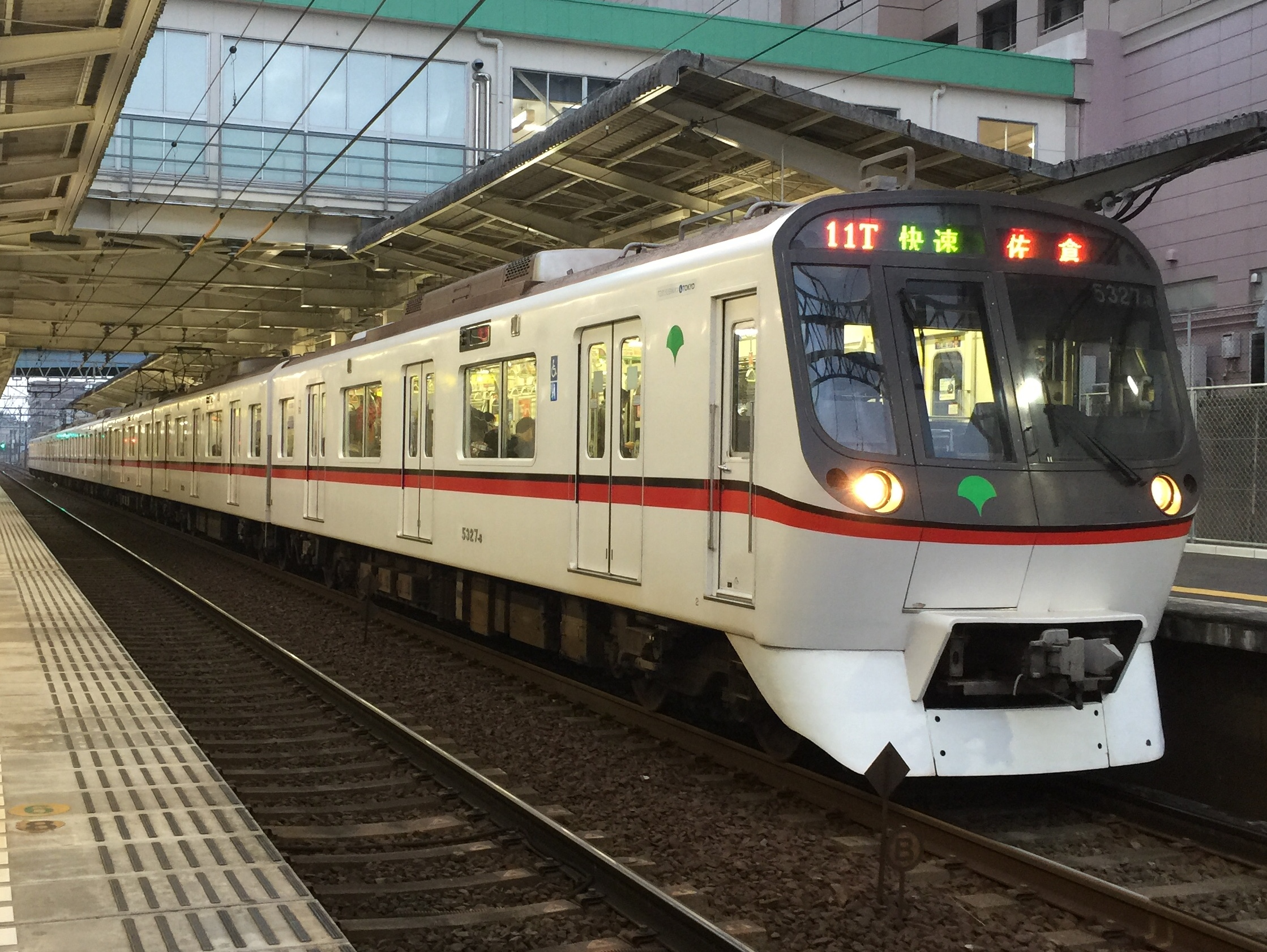 Toei 5300 series EMU set 5327 at Yūkarigaoka Station on the Keisei Main Line in Chiba Prefecture, Japan